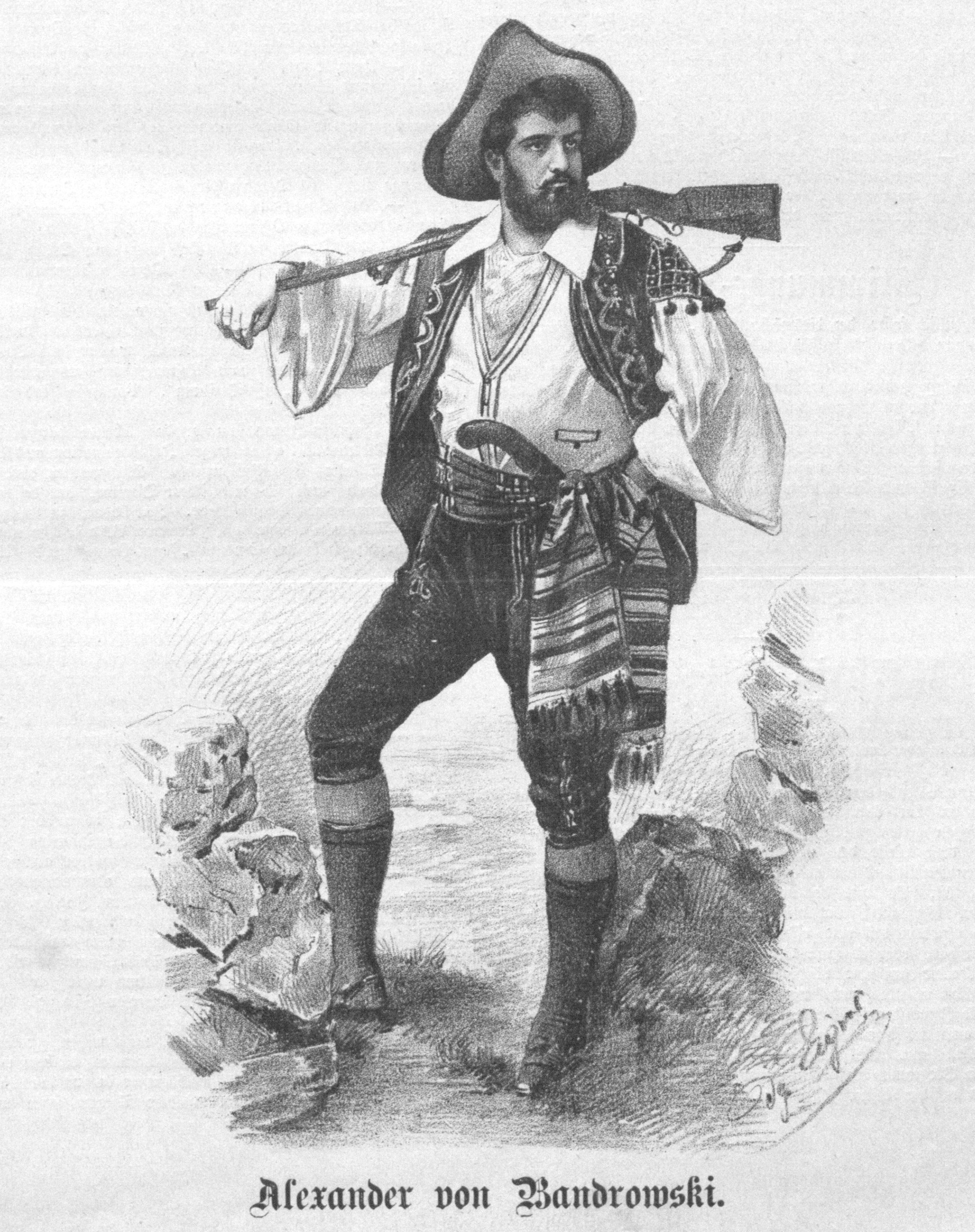 Portrait of Alexander von Bandrowski (1860-1913), Polish-Austrian actor and singer.